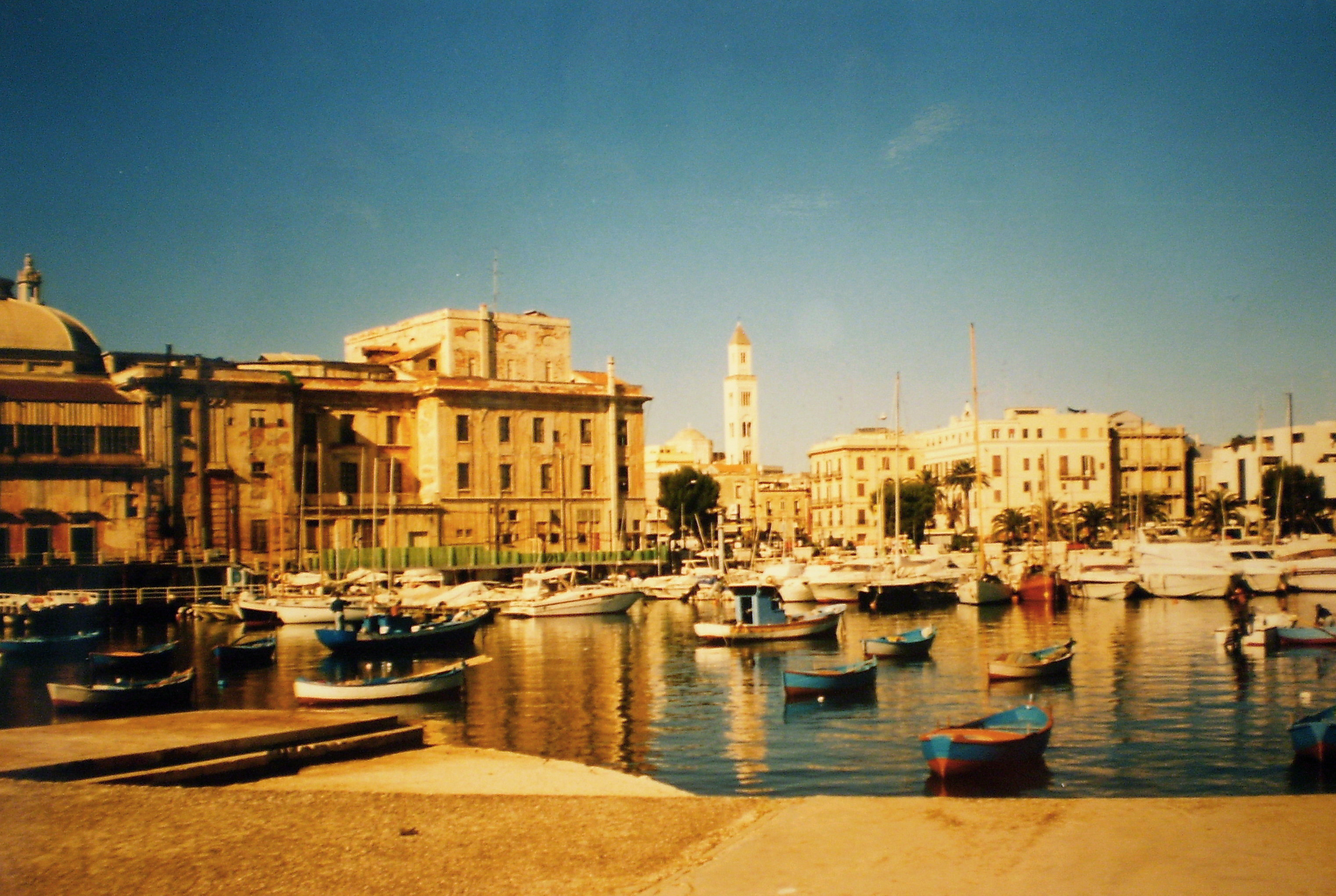 Yacht and small boats harbour with Teatro Margherita in Bari, Italy. In the background: bell tower of Cattedrale di San Sabino